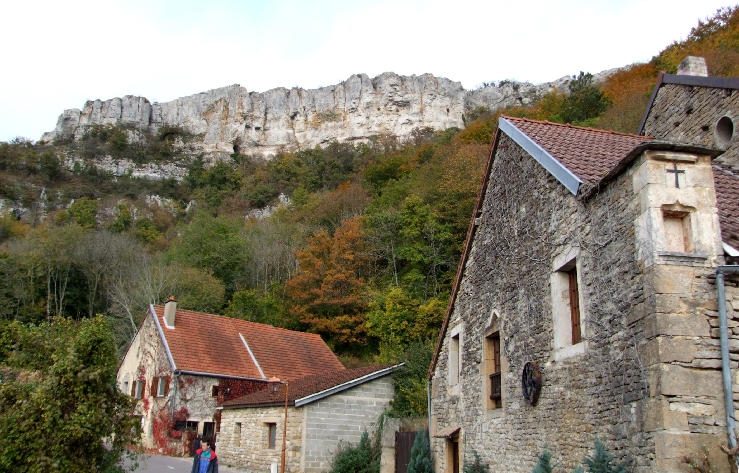 Baulme-la-Roche, Burgundy, FRANCE